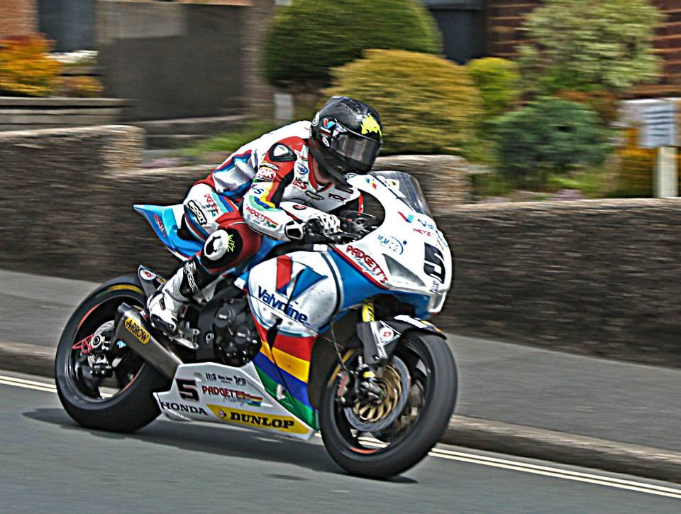 Bruce Anstey thunders down Bray Hill on his way to victory in the 2015 Superbike TT